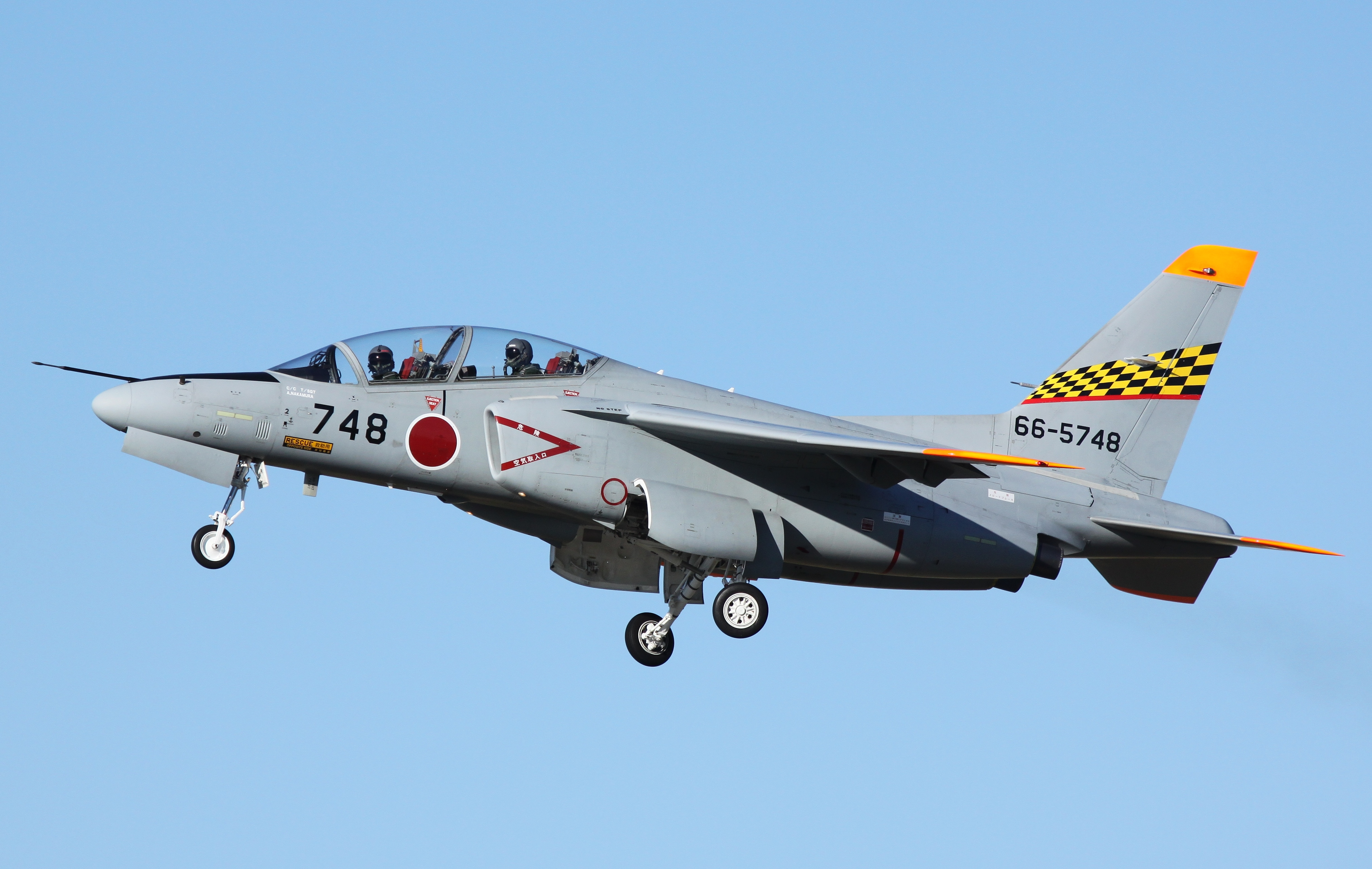 Kawasaki T-4